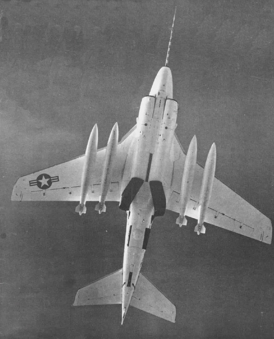 One of eight Grumman YA2F-1 Intruder prototypes photographed from below. The first flight as on 19 April 1960. The aircraft was redesignated A-6 in 1962.